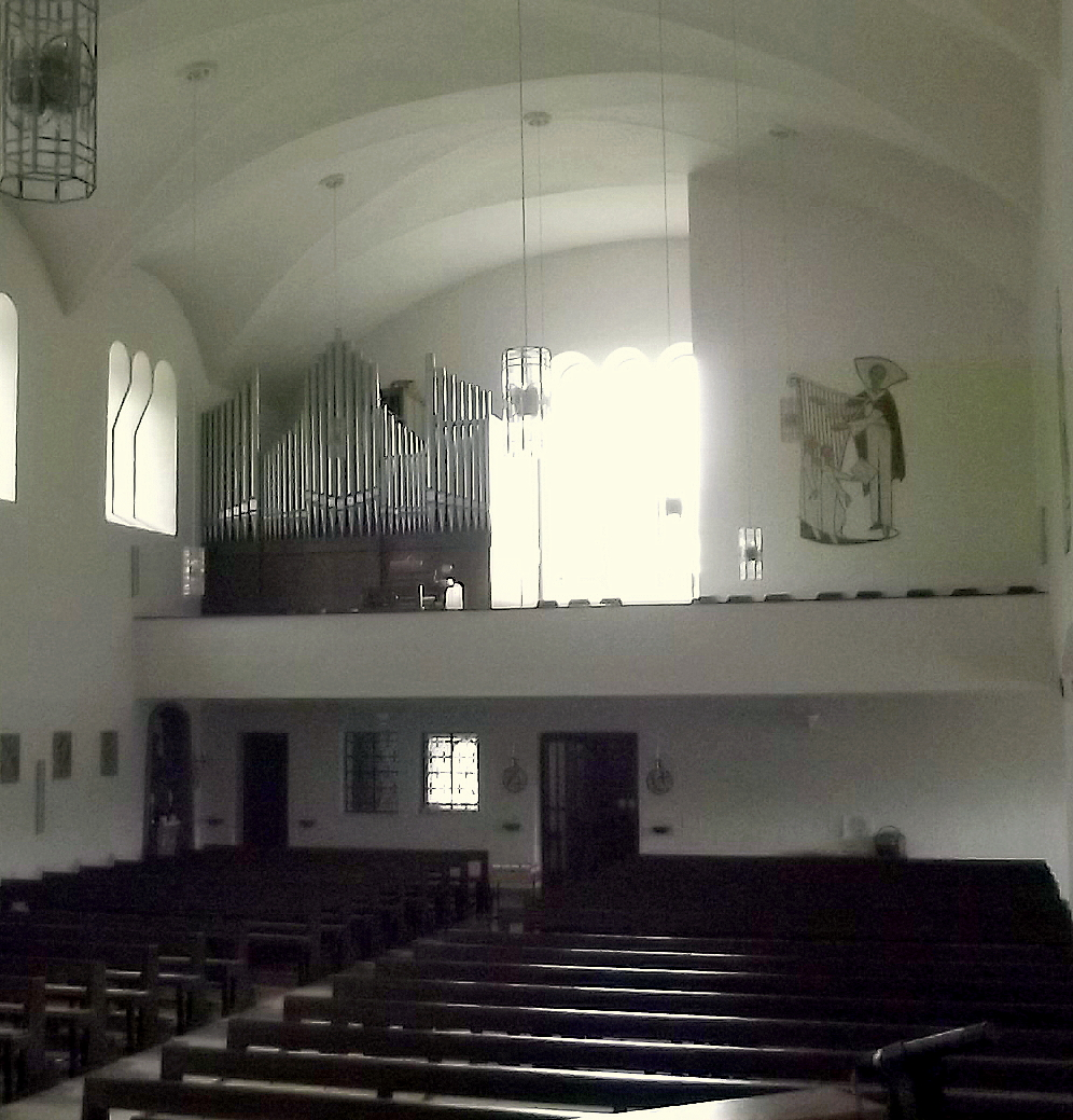 Interior of the roman catholic church in Dirmingen, Saarland, Germany